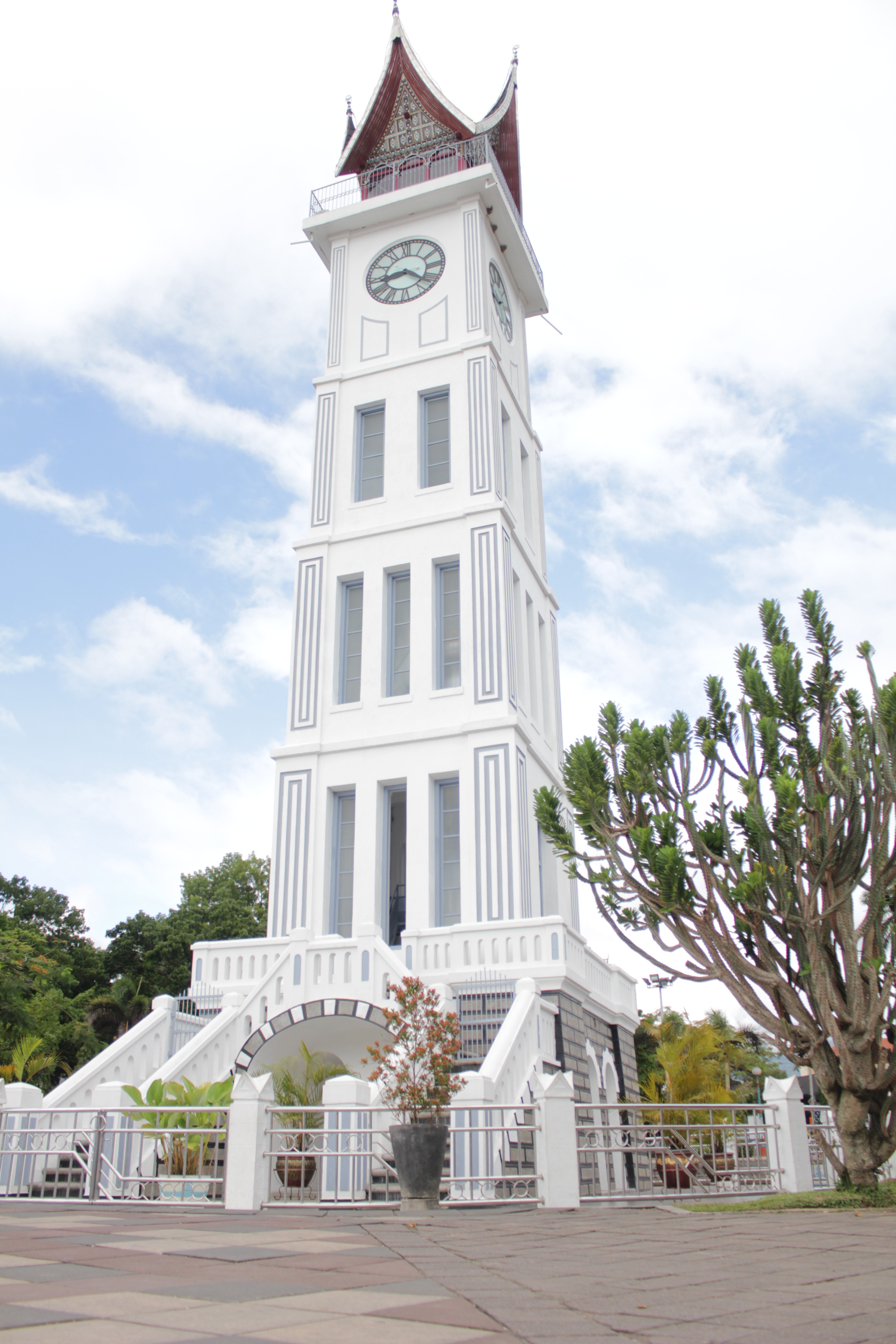 Jam Gadang Clock Tower in Bukit Tinggi